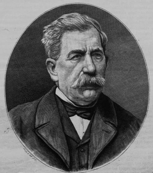 Portrait of the elderly László Korizmics